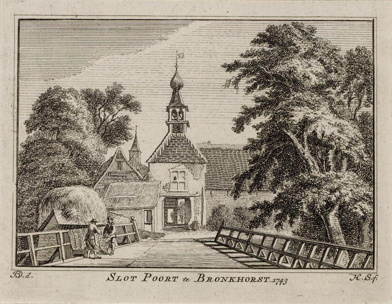 Gate of castle Bronkhorst, seen from the castle. Behind the gate is the city.